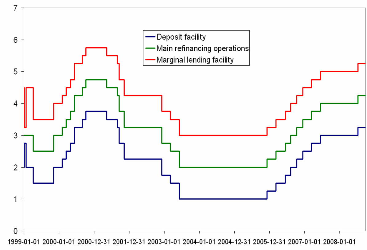 Eurozone_interest_rates, source of data